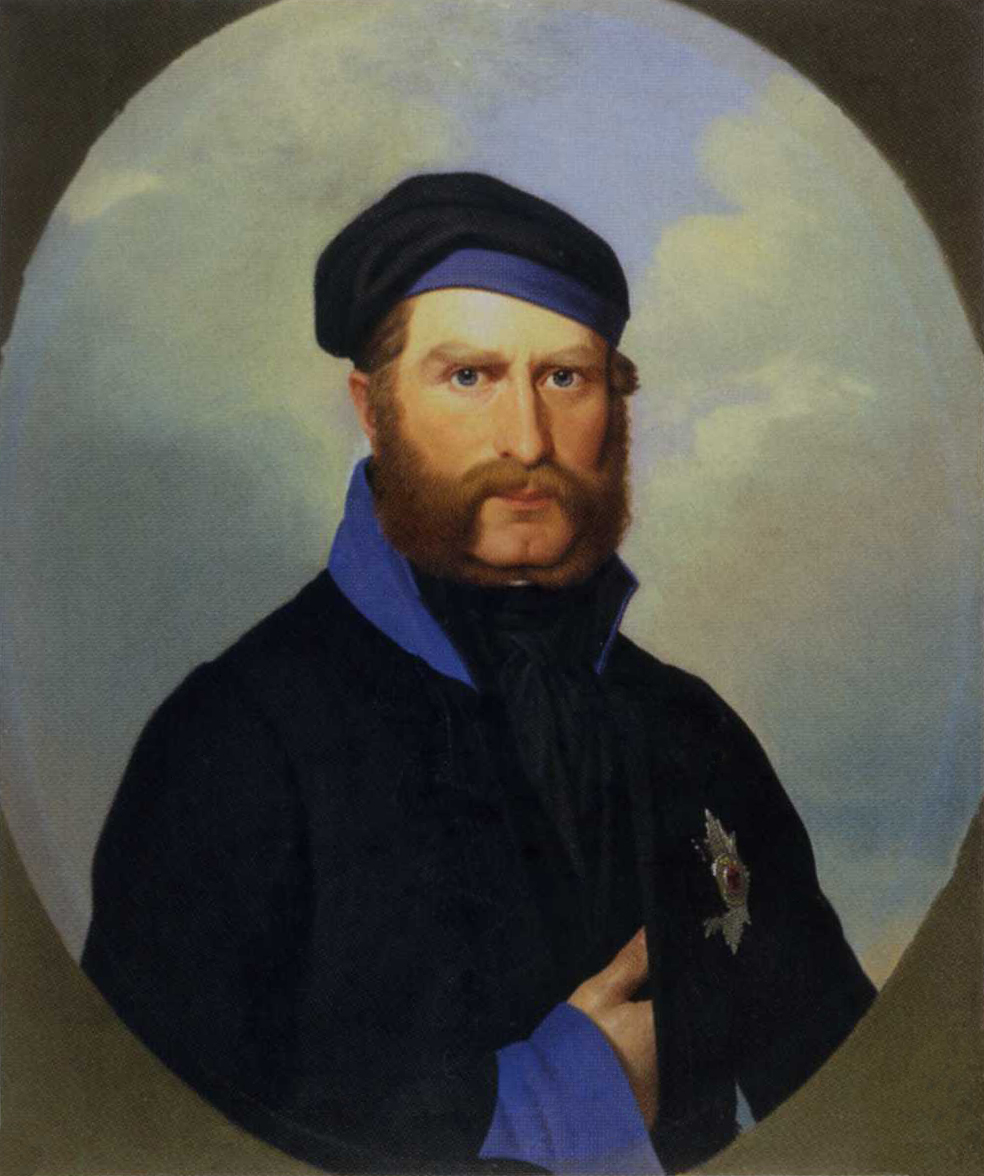 Duke of Brunswick-Oels, by Johann Christian Ludwig Tunica of Deckenhausen bei Hamburg. Oil on canvas, 72.5 x 59 cm. Brunswick Municipal Museum, Inventory No. 1200-1179-00, Schill Foundation No. 3. Gift of the Brunswick Magistrate to the Schill Foundation in Brunswick.